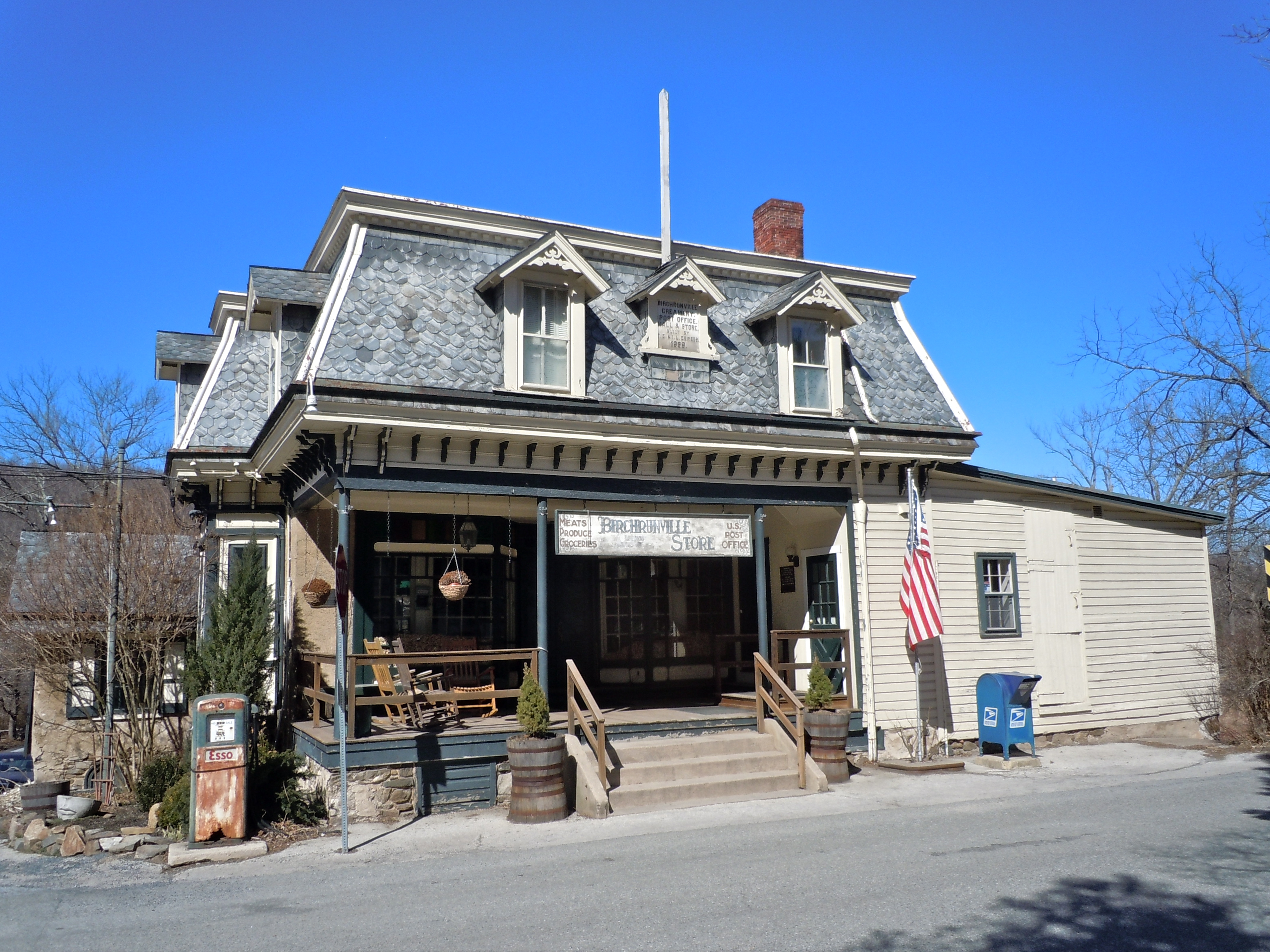 Birchrunville General Store on the NRHP since March 21, 1978, at junction of Hollow and Flowing Springs Roads, Birchrunville, Chester County, Pennsylvania. Datestone (under center dormer) says 1888. Working Post Office is to the right of the building. Front doors are for a restaurant. In West Vincent Township. A contributing building in the Birchrunville Historic District as well.